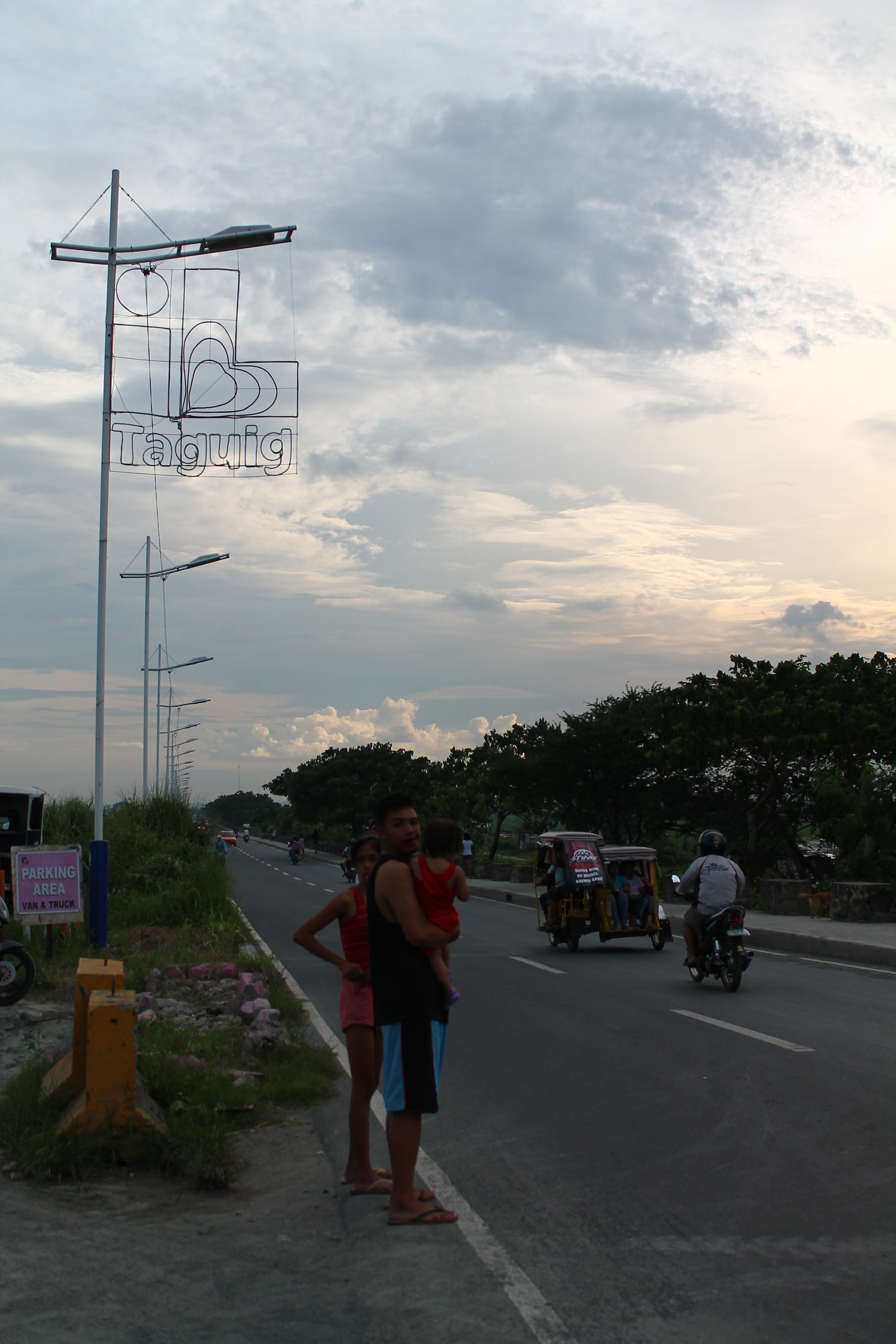 C-6 Road between Taguig City and Pasig City